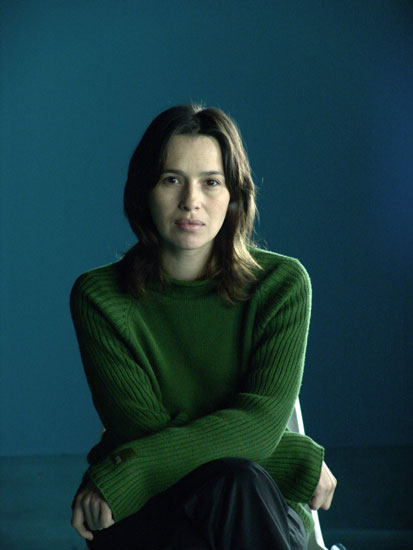 Ariadna Gil (born January 23, 1969) is a Spanish actress.